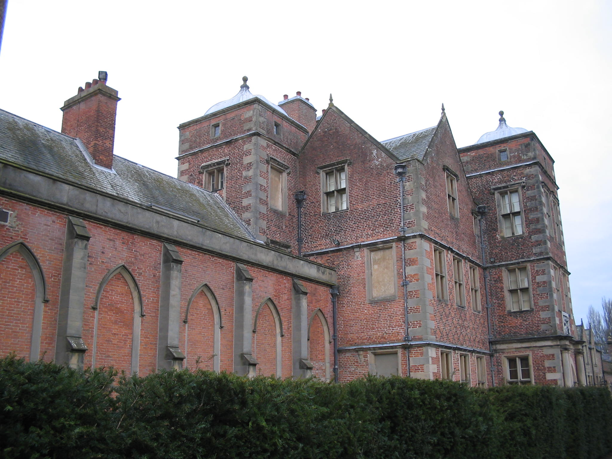 Kiplin Hall, North Yorkshire, UK. Showing main frontage and library extension. Taken February 2005 by Madmedea. Own work.